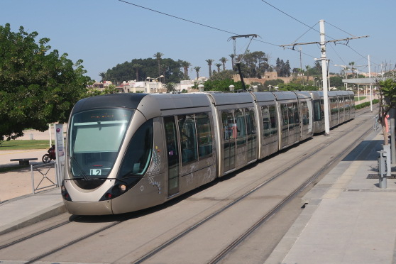 location Rabat, manufacturer Alstom, type Citadis